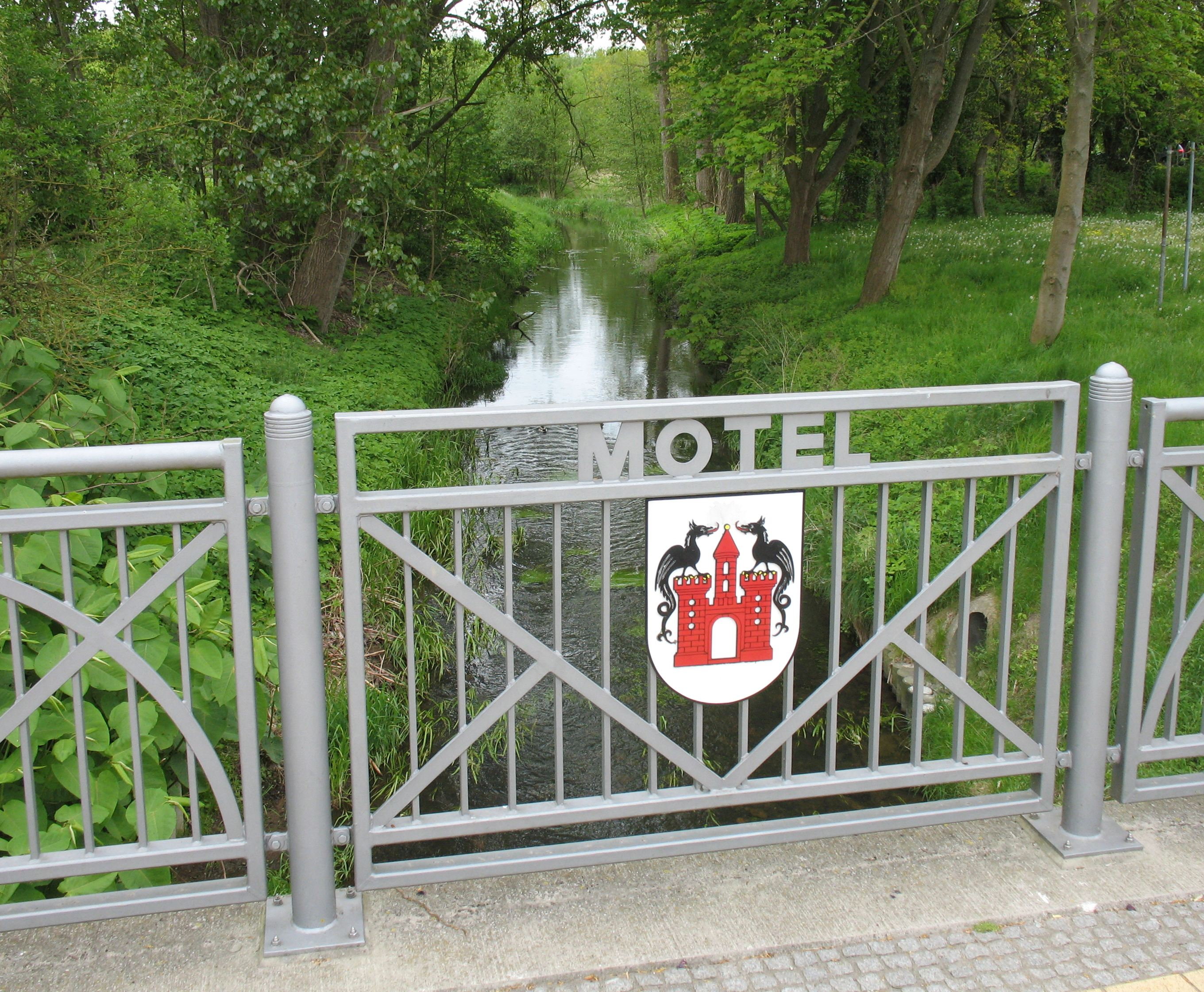 Bridge and river Motel in Wittenburg in Mecklenburg-Western Pomerania, Germany